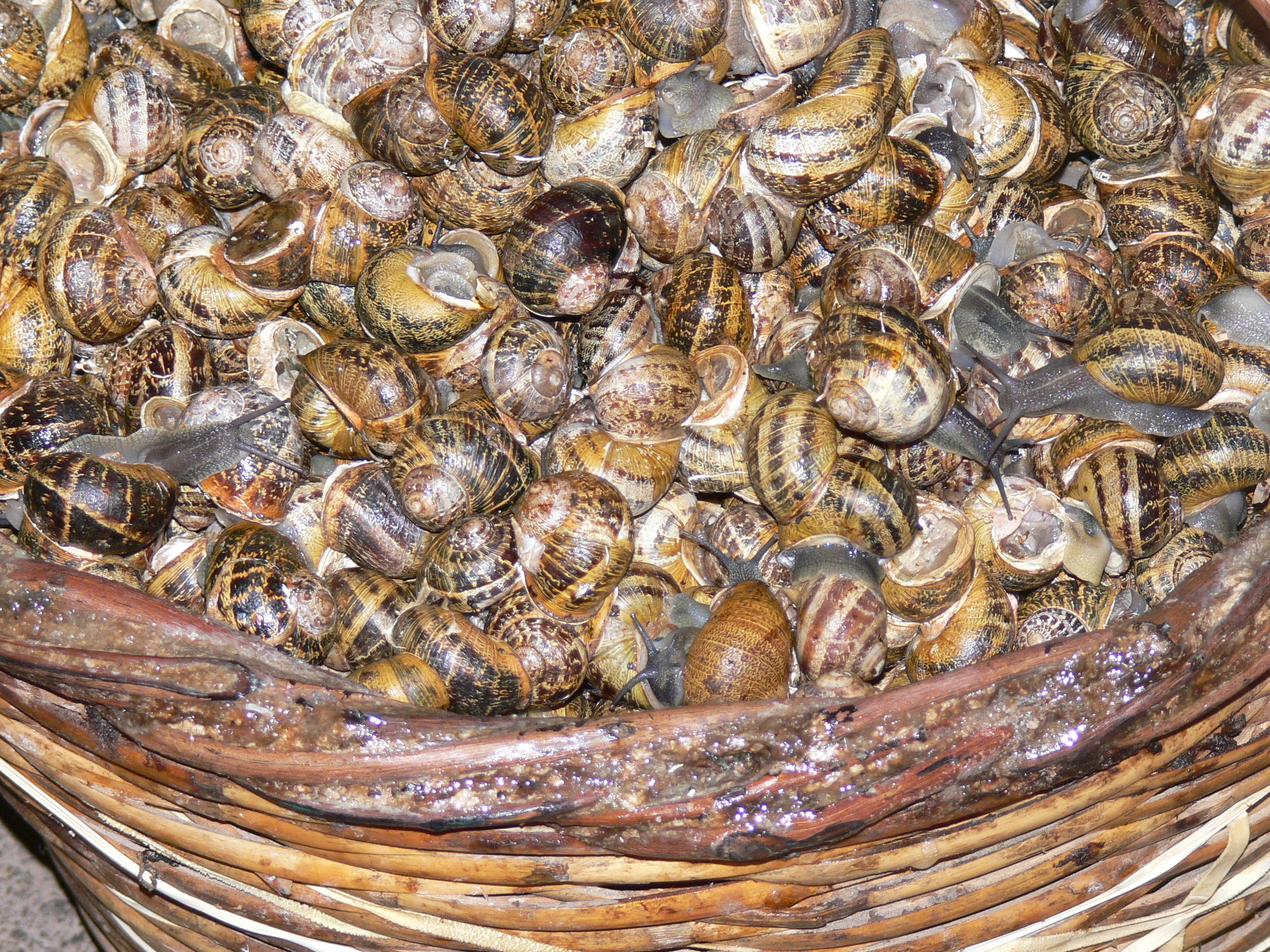 Market hall of Chania ( Crete ). Snails on sale.